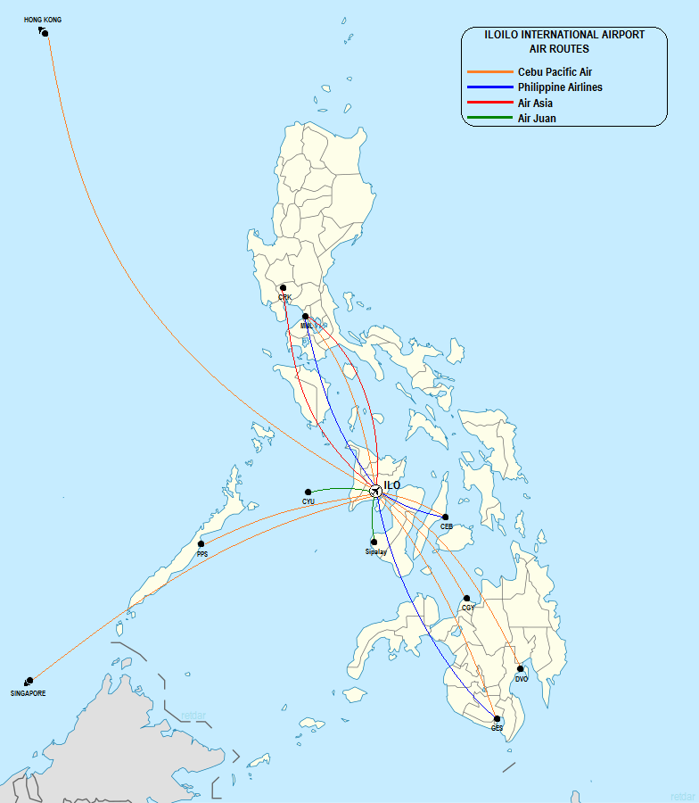 Commercial air routes to and from the Iloilo International Airport.